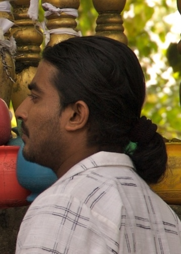 Photograph of Uddika Premarathna.